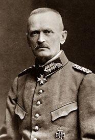 General Martin Chales de Beaulieu (WWI, Imperial German Army)